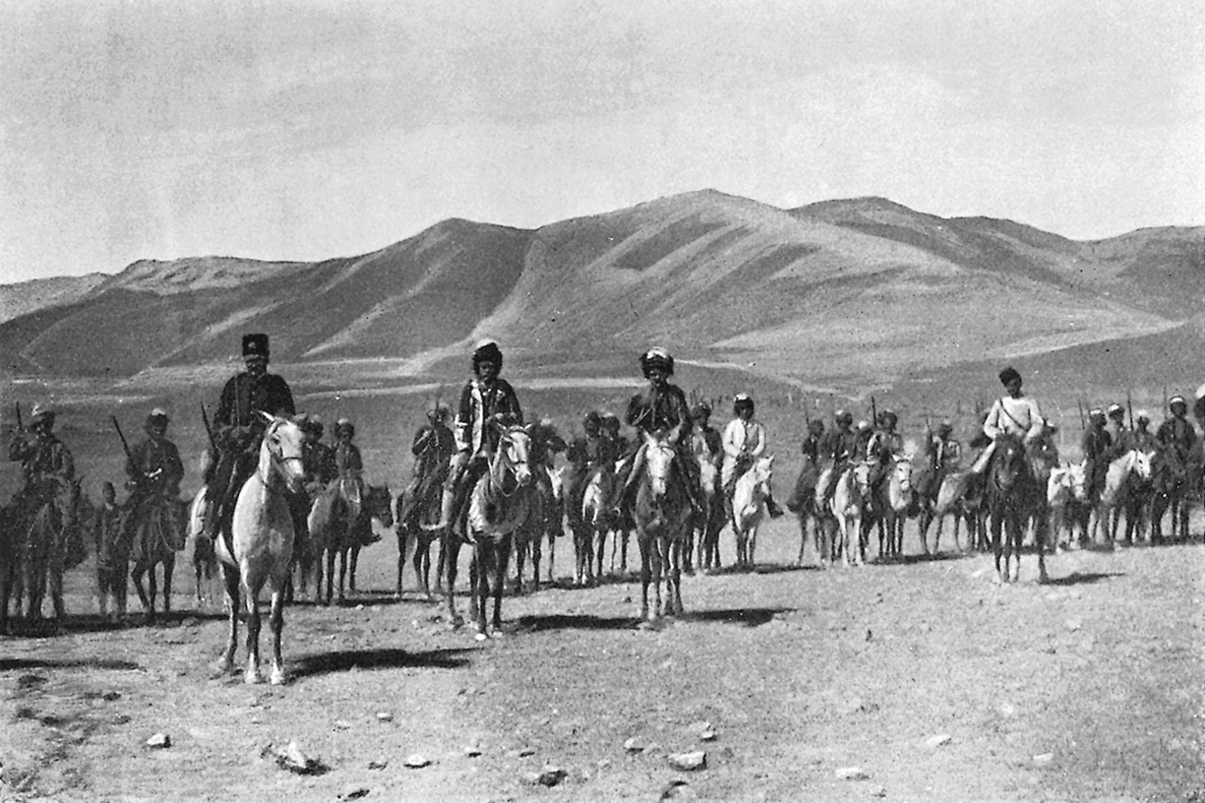 This file is a reproduction of an image from the book "Armenia: Travels and Studies, Vol. 1" authored by Harry Finnis Blosse Lynch, London 1901. The image's title is "Hamidiye cavalry at village of Gumgum". It has recently been reproduced in the book "Rebellenland" by Christopher de Bellaigue, Munich 2008 (Verlag C.H.Beck).